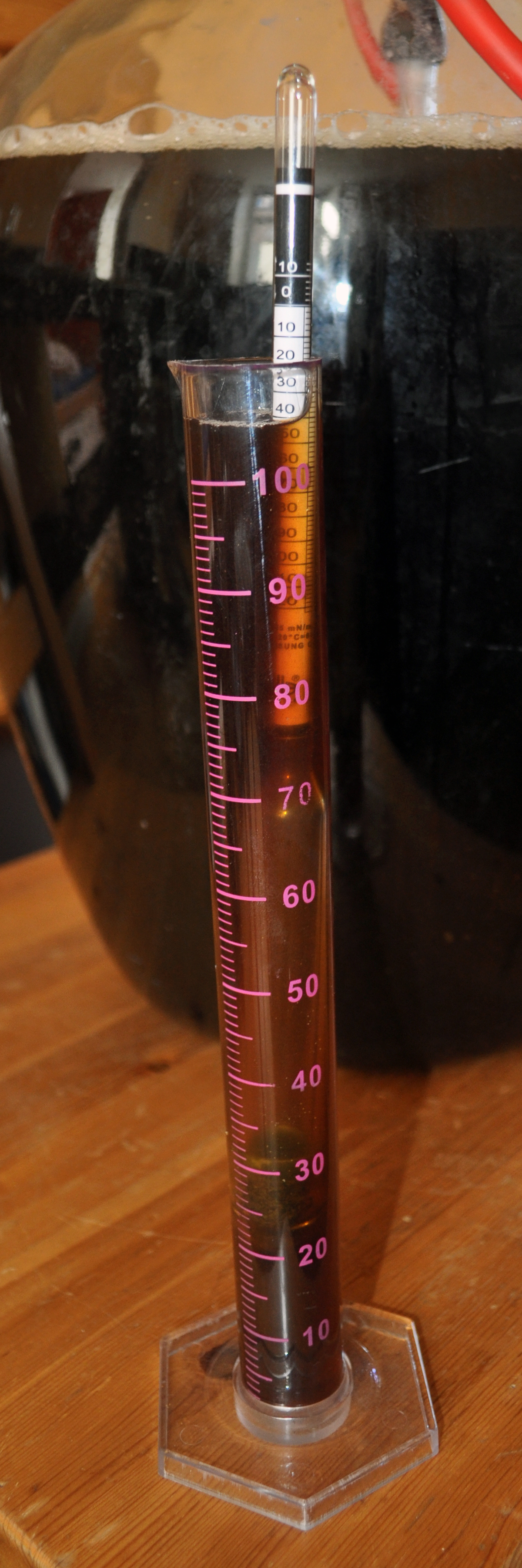 A hydrometer to test how much alcohol is in the fluid.